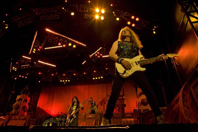 Iron Maiden performing "El Dorado" at Soundwave Festival, Melbourne, Friday 4 March 2011